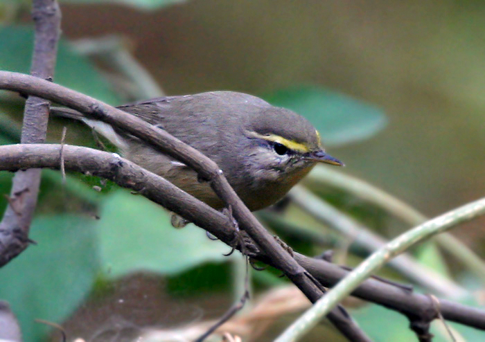 Sulpher-bellied Warbler Phylloscopus griseolus at Sindhrot in Vadodara District of Gujarat, India.